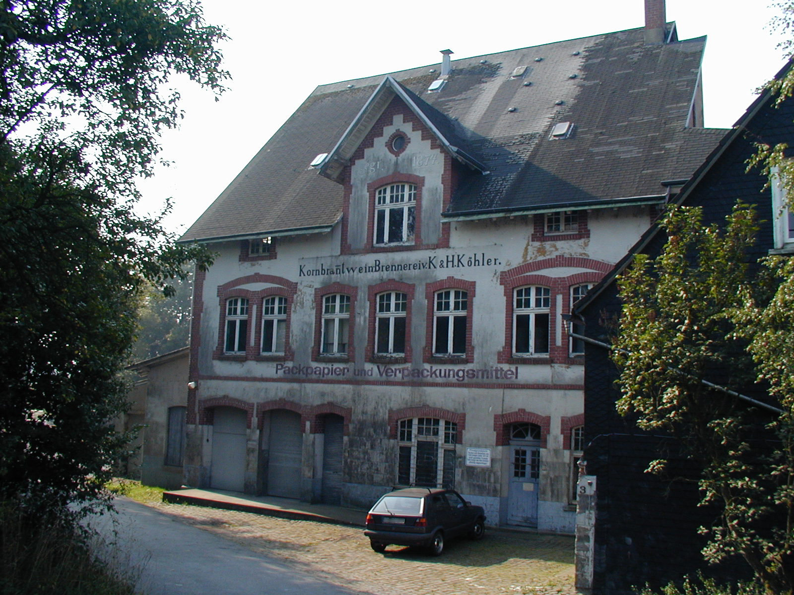 Destillery in Wuppertal-Vorm Eichholz